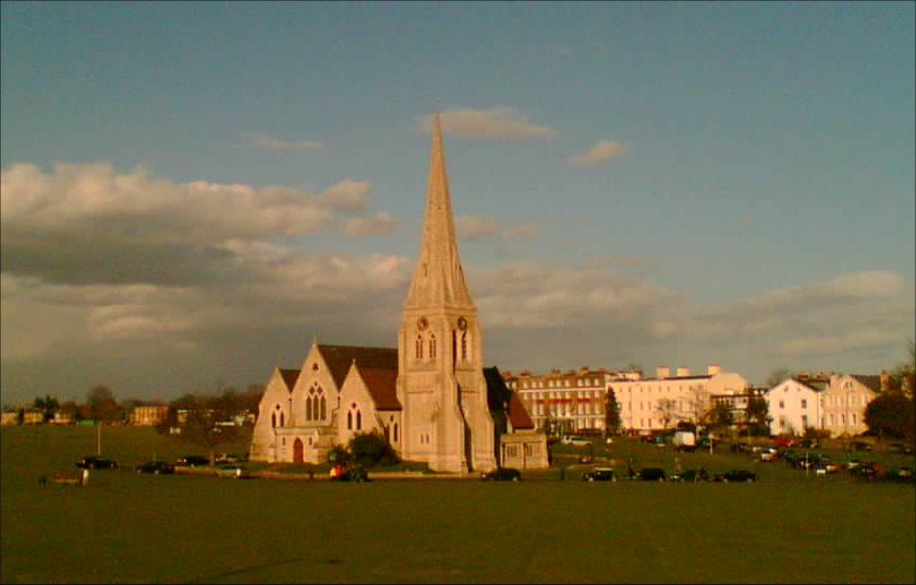 All Saints parish church, Blackheath, London, seen from the southwest